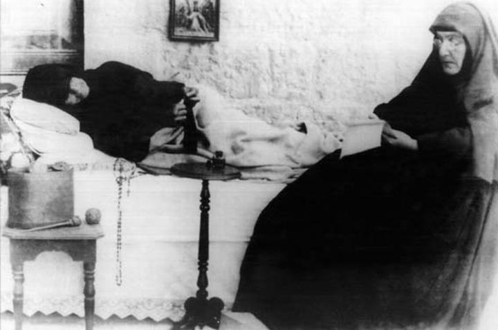 A picture of an ill Rafqa Rayes being cared for at the monastery.